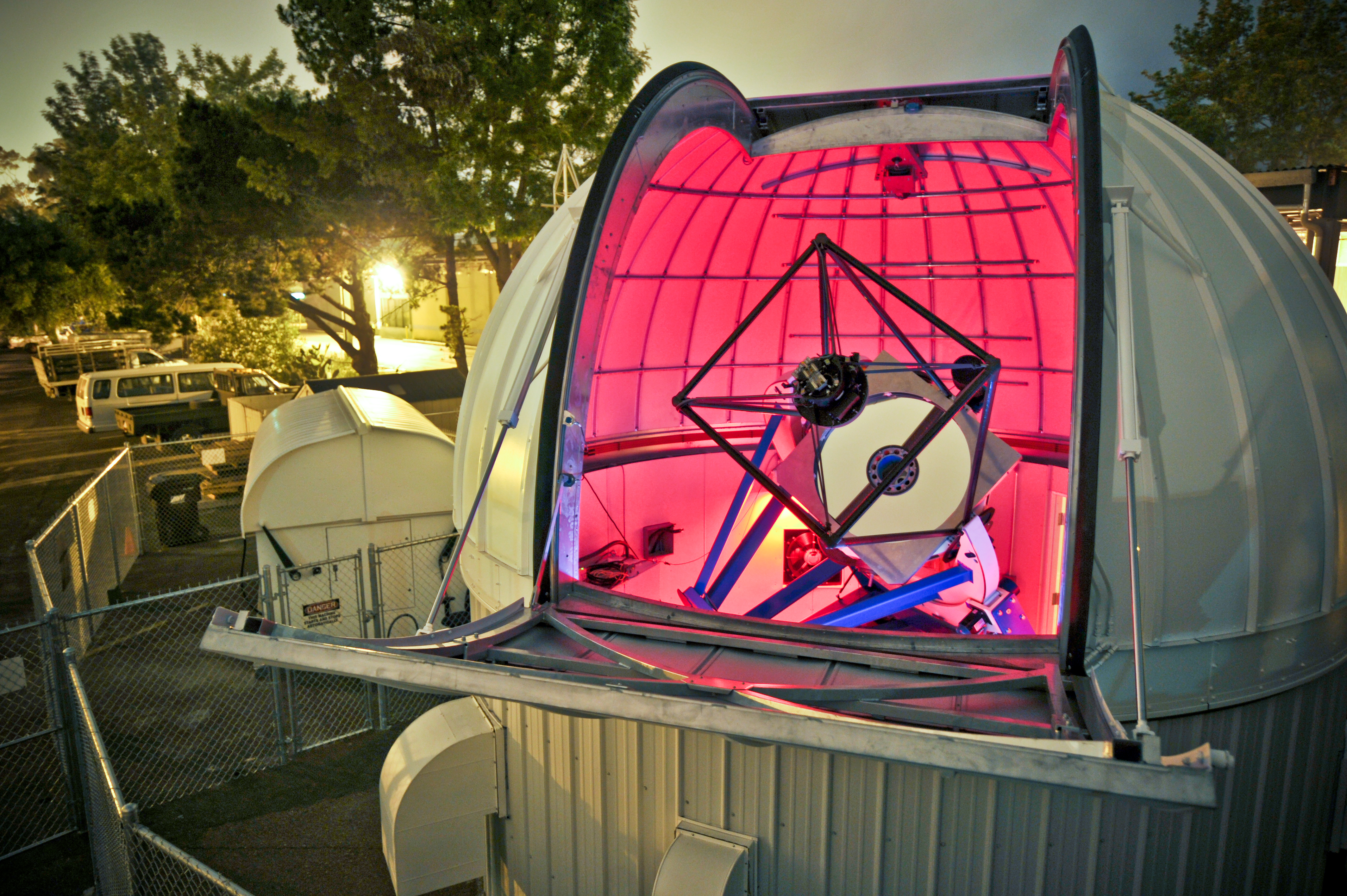 LCOGT 1m telescope in an enclosure